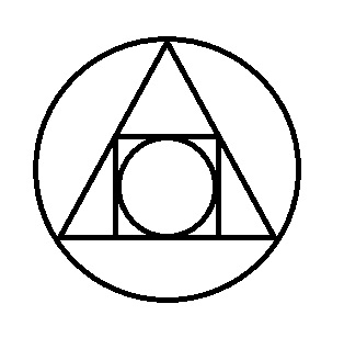 The Squared Circle: an Alchemical Symbol illustrating the interplay of the four elements of matter symbolizing the philosopher's stone; the result of the "Great Work"